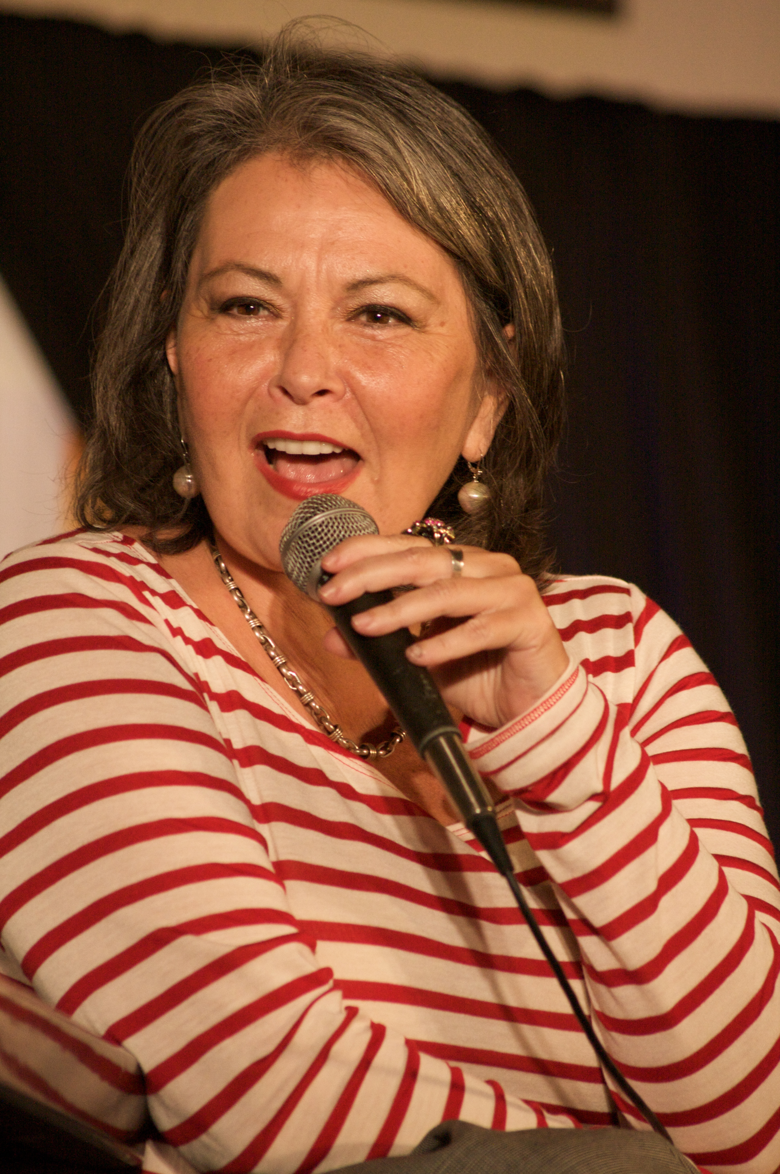 Roseanne Barr at the Hard Rock Cafe in Maui in 2010.